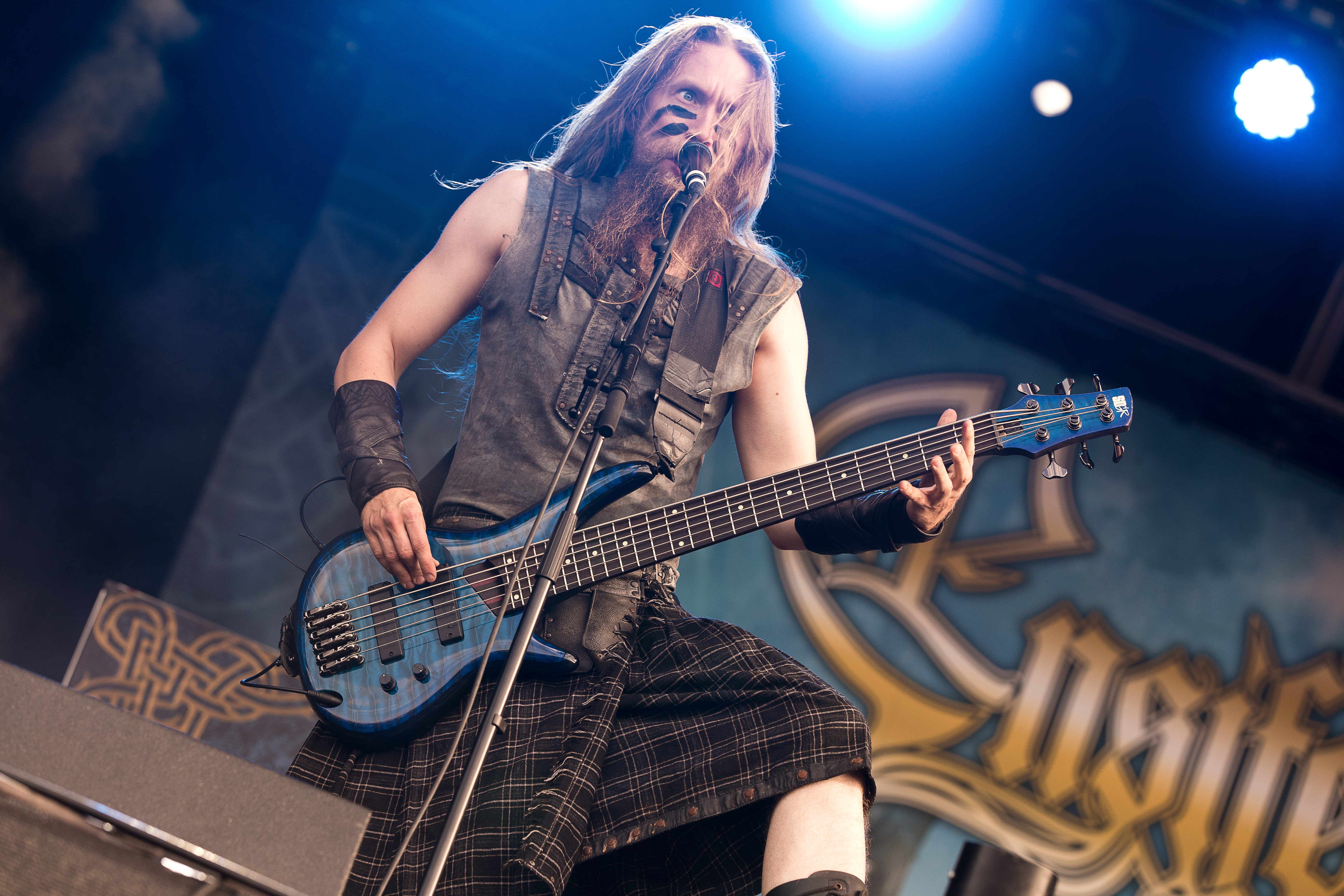 The Finnish folk metal band Ensiferum at the Rockharz Open Air 2016 in Ballenstedt/Germany.